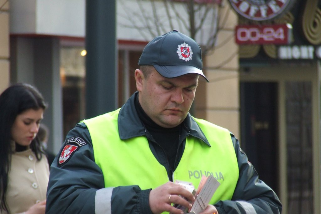 Lithuanian police officer on duty.